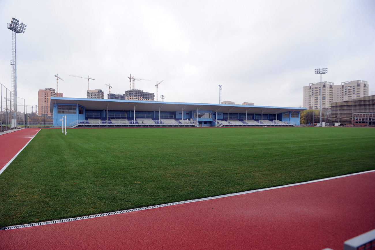 Smena Stadium in Saint Petersburg, Russia